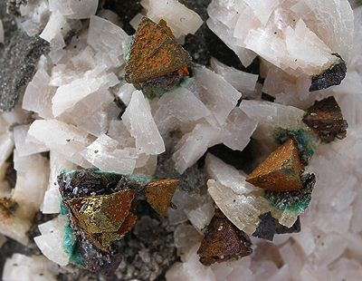 Chalcopyrite, Dolomite, Calcite Locality: Mid-Continent Mine, Treece, Picher Field, Tri-State District, Cherokee County, Kansas, USA (Locality at ) Size: 12.0 x 9.7 x 4.3 cm. Harold collected this in 1965 on some of the still-accessible portions of the old Tri-State District mining areas. It has shapr, pyramid-looking crystals of chalcopyrite to about 7mm, perched on pastel pink, curving dolomite crystals. Fine calcite crystals are on the back of the plate. This is classic for the district. Ex. Harold Urish Collection.